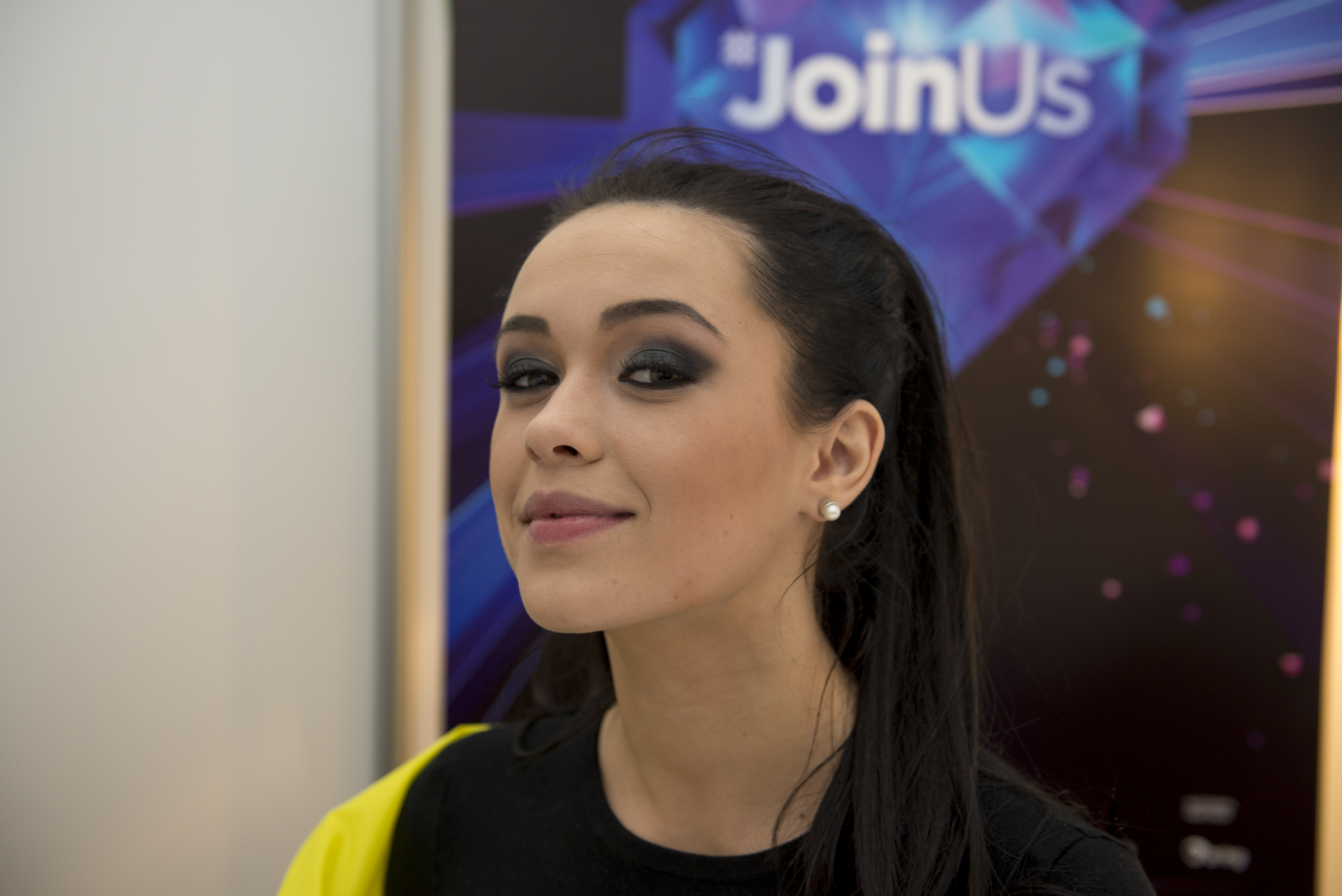 Mariya Yaremchuk at a Meet & Greet during the Eurovision Song Contest 2014 Copenhagen. (Help translate this text)